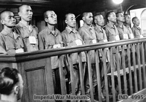 The accused in the dock of the Singapore Supreme Court (l to r): Captain Gozawa Sadaichi, Lieutenant Kaniyuki Nakamura, a Sergeant-Major , Sergeant Yabi Jinichiro, Corporal Osaki Majoto, Corporal Ashoiya Tamotsu, Lance Corporal Chiba Mesami, Captain Okusawa Ken, Lieutenant Kajino Ryuichi and a Sergeant-Major .